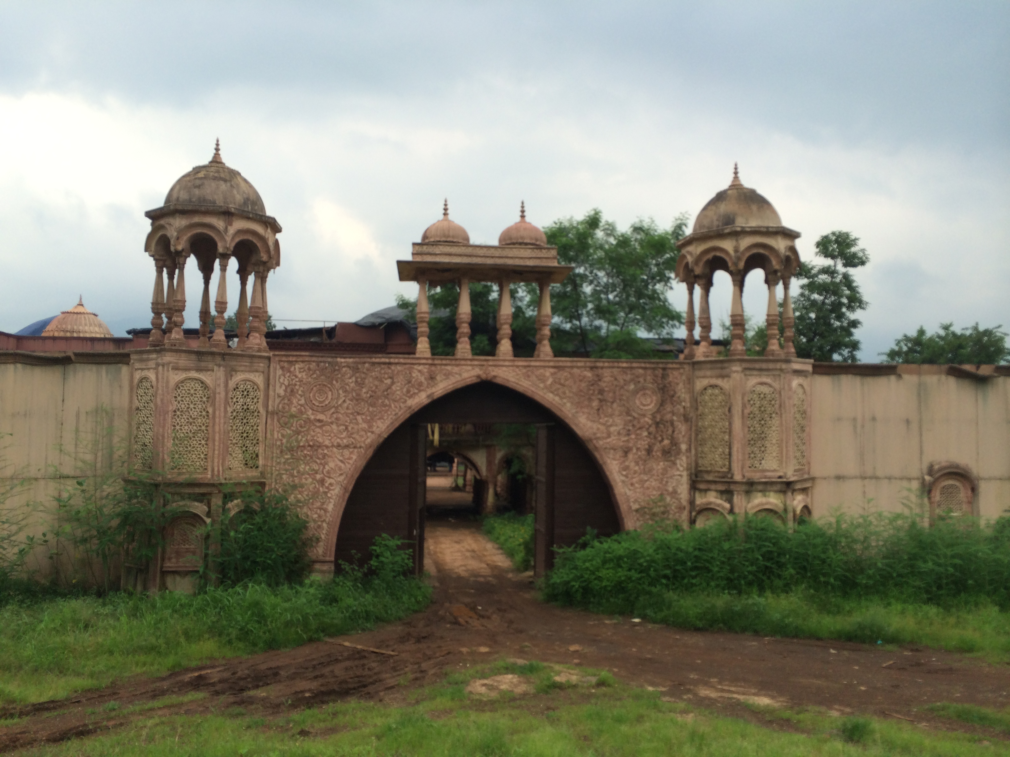 NDStudios